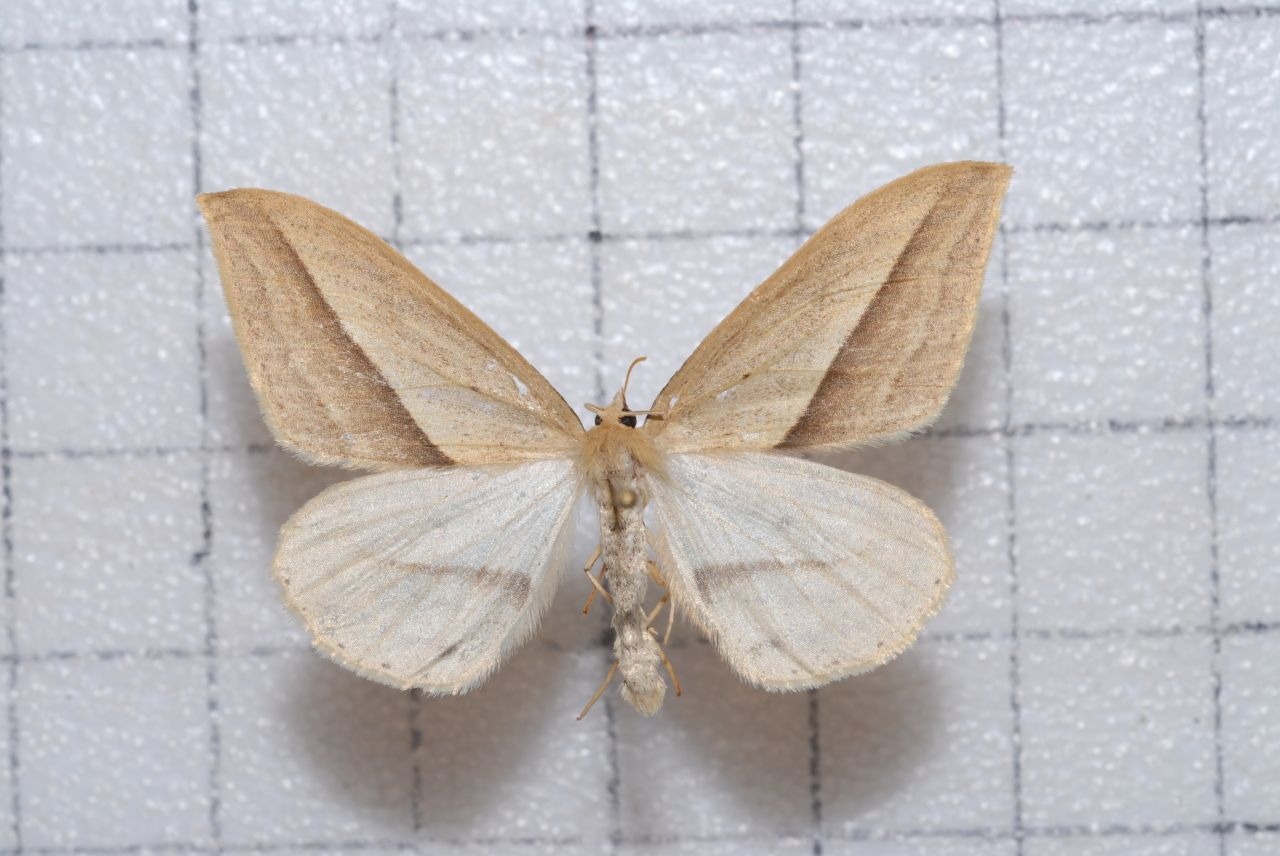 Loxaspilates arrizanaria Bastelberger, 1909 Endemic Species of Taiwan